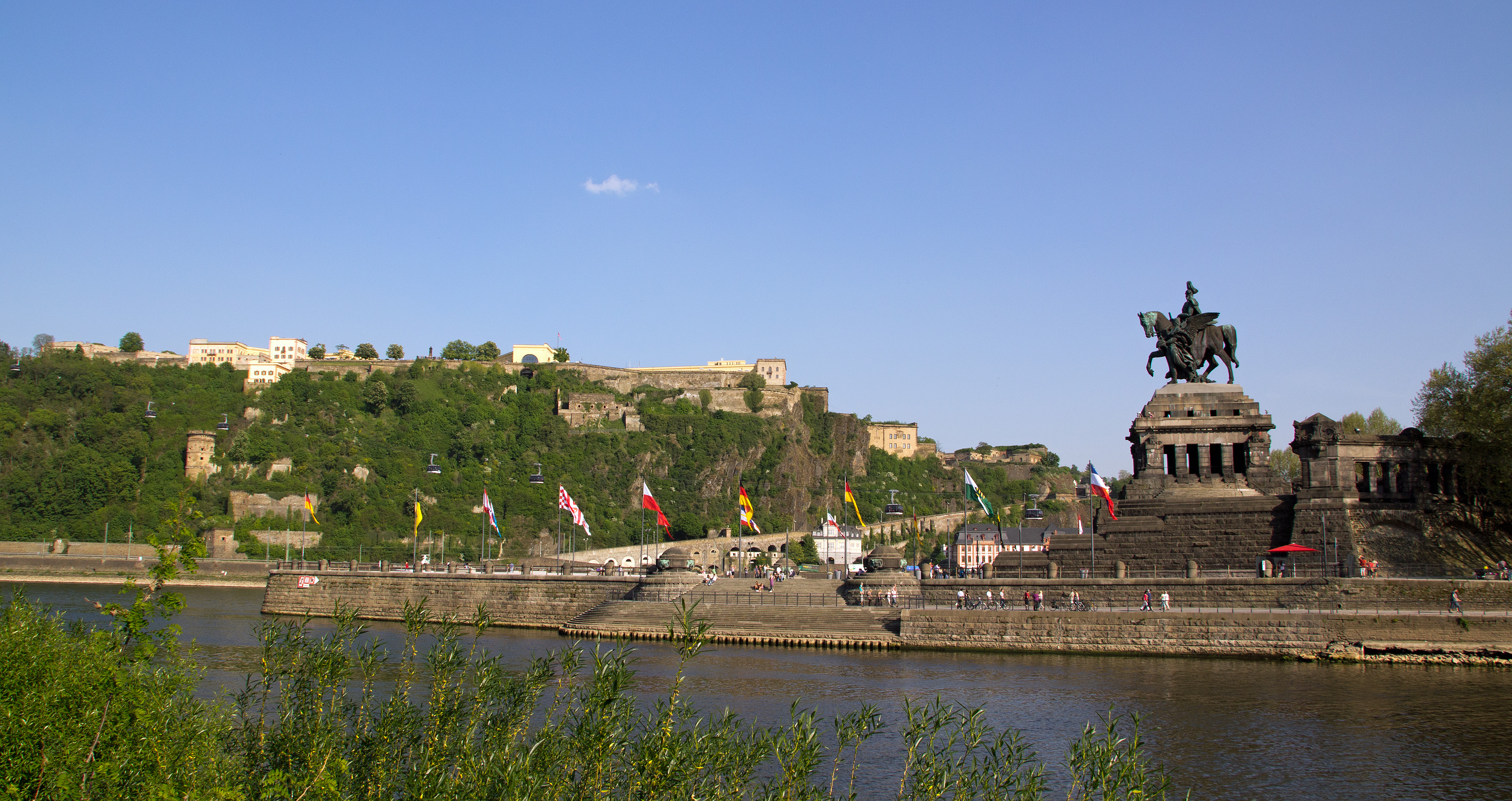 Deutsches Eck and Festung Ehrenbreitstein in Koblenz